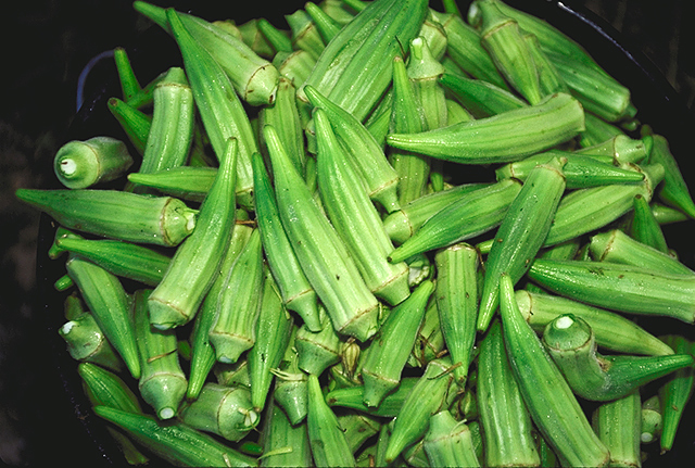 Bucket of raw Abelmoschus esculentus (okra) pods